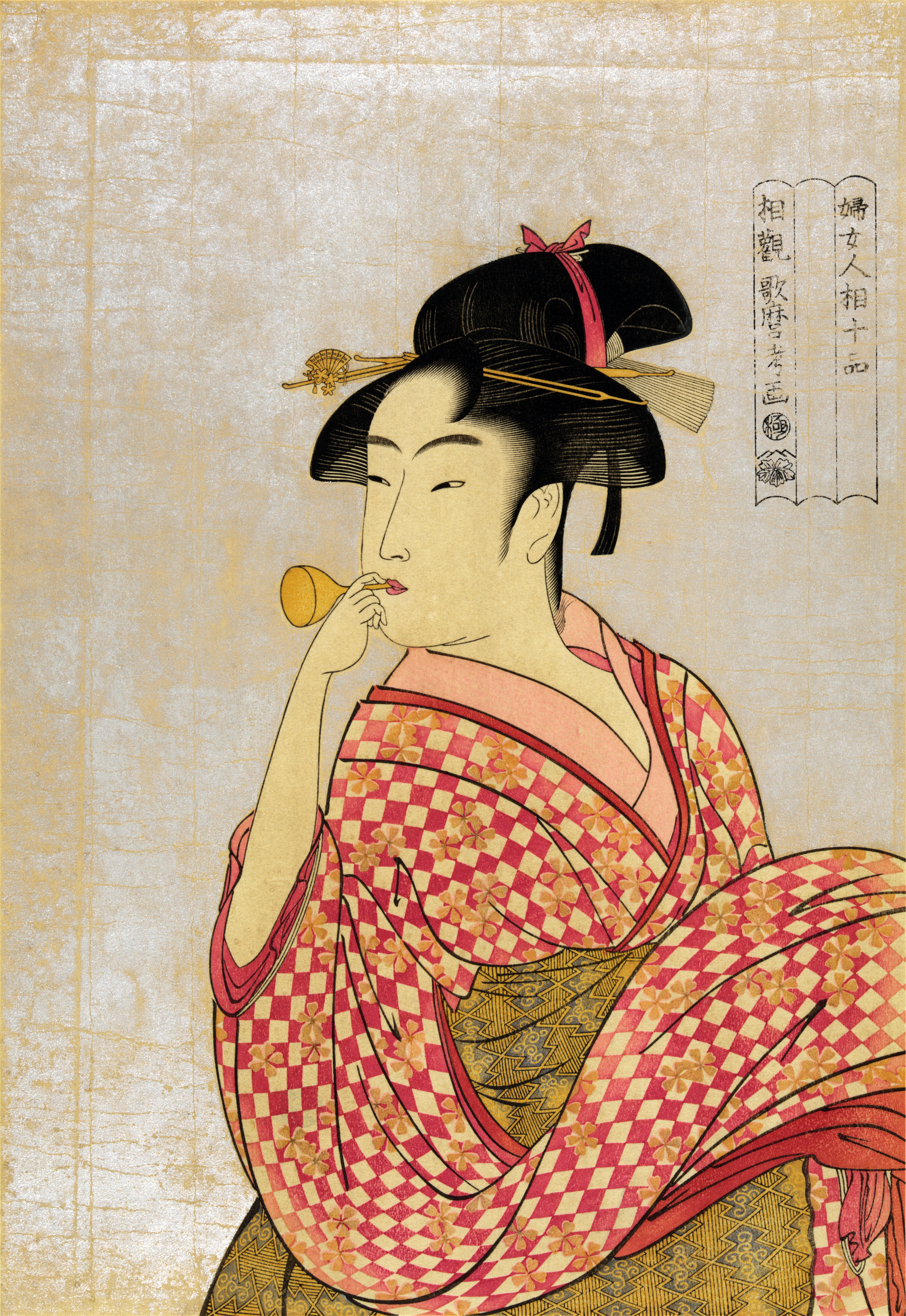 Poppen o fuku musume (Young lady blowing on a poppin). Ukiyo-e print shows a young woman, half-length portrait, turned to the left, blowing into a toy. Color woodcut by Kitagawa Utamaro, 1790. Modern reprint, between 1918 and 1923. From the Japanese Fine Prints Collection at the Library of Congress More Utamaro woodcuts | More Japanese fine prints [PD] This picture is in the public domain.